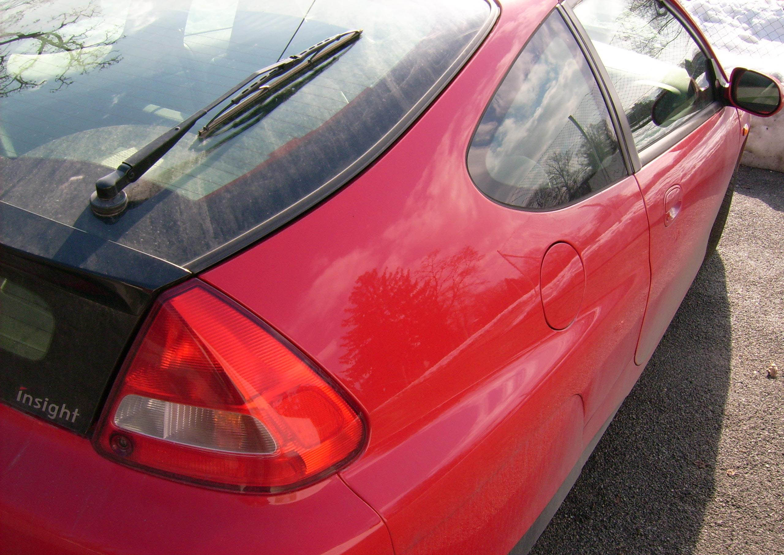 Own Photo